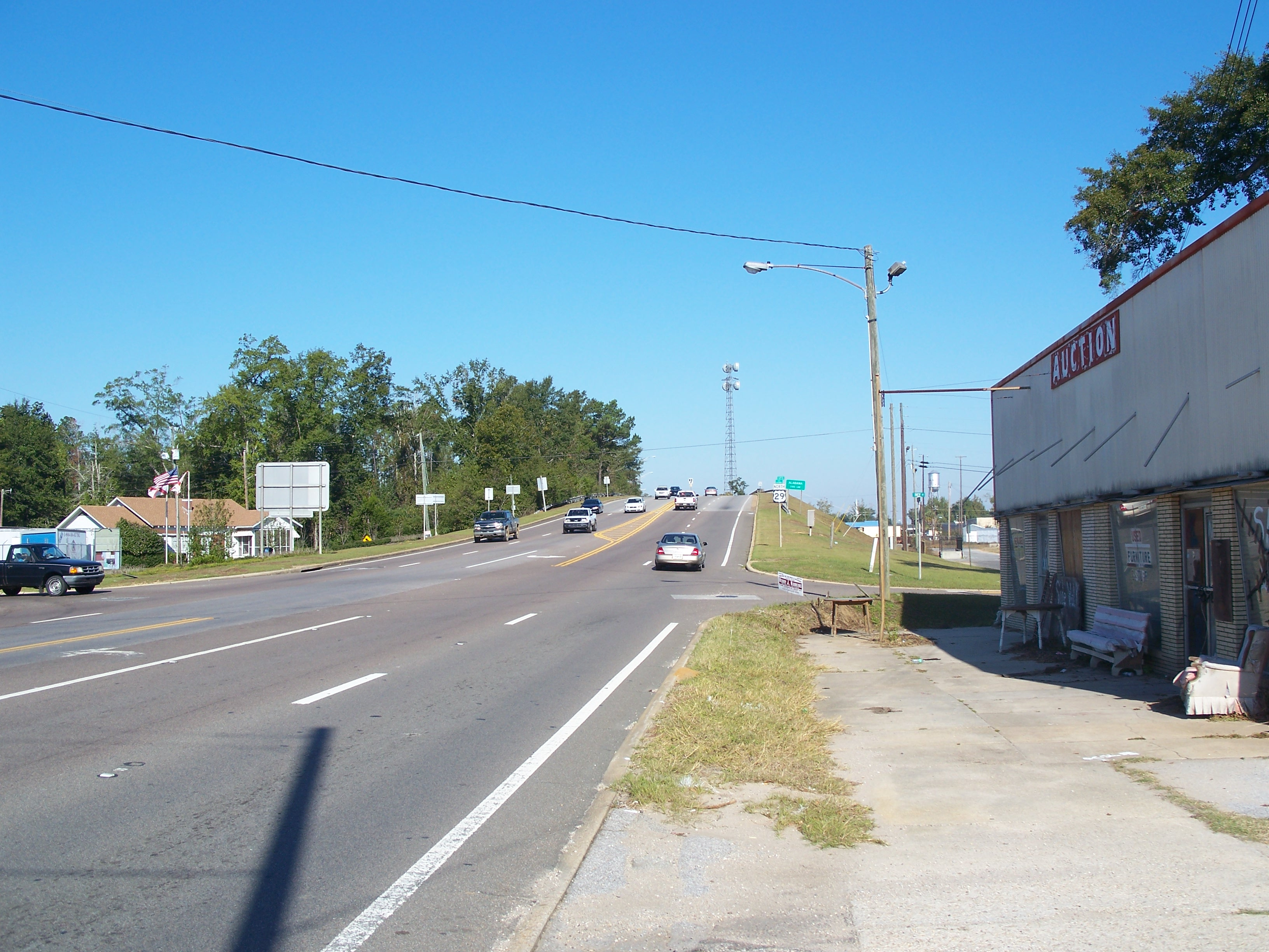 Century, Florida: Looking north on US 29 towards Flomaton, Alabama